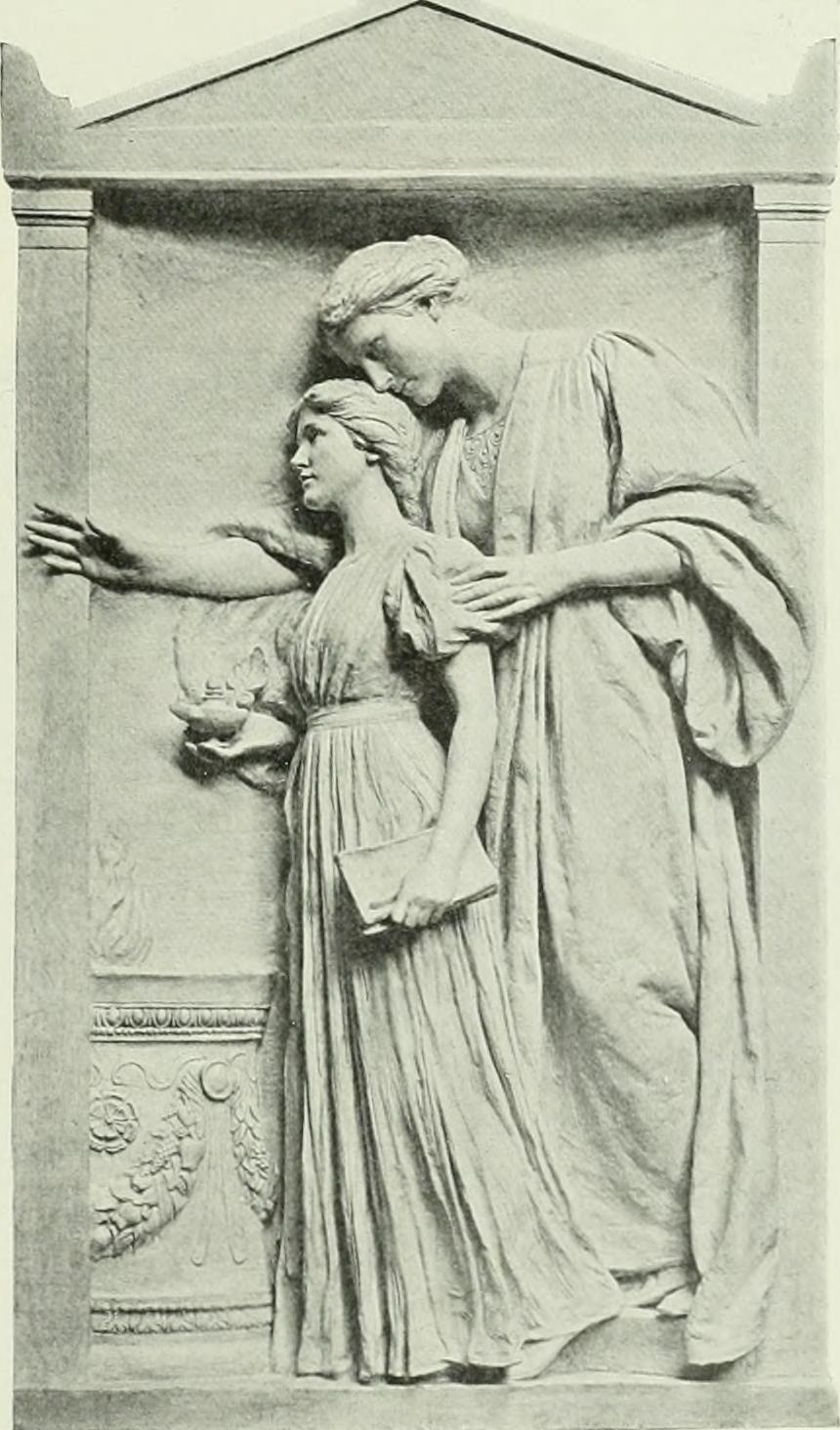 Alice Freeman Palmer memorial by Daniel Chester French Title: International studio Year: 1897 (1890s) Authors: Subjects: Art Decoration and ornament Publisher: New York Text Appearing Before Image: nch was engagedwhen I last visited him at Glendale, represent thefour continents of Europe, Asia, Africa, andAmerica, from all of which presumably (since theMcKinley tariff) the New York Customs claim some slight pecuniary assistance. Perhaps themost attractive among these groups are, not in-appropriately, America and Europe. The former,a seated female figure, with something ardent anduncompromising in her very attitude, has behindher an Indian who bends over her shoulder ; whileEurofie, a queenly being, enthroned and crowned,has as her comrade or attendant the shroudedform of History, who holds a laurel-wreathedhuman skull and a book. Her whole bearing isregal in its dignity, though it lacks the intentalertness of America. Africa, in contrast to theserobed queens, is a sleeping woman of Nubian type,the upper part of her figure entirely nude ; sherests her right arm upon the Sphinx, and behindher a shrouded figure seems to hint at her yetunknown future. It is so rarely that Mr. French Text Appearing After Image: ■1^ ALICE FREEMAN PALMER MEMORIAL BY DANIEL CHESTER FRENXII Datiiel Chester French